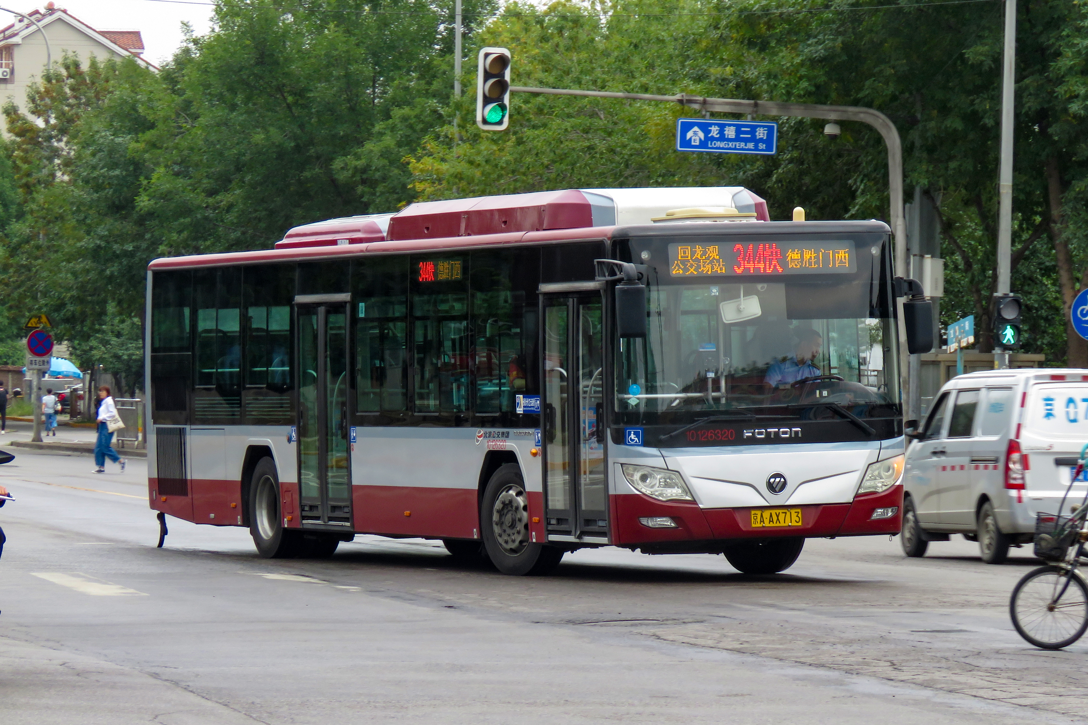 344快 to Deshengmen West.